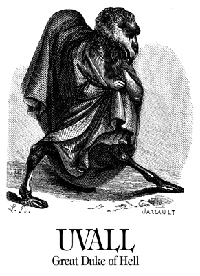 Uvall, from J.A.S. Collin de Plancy, Dictionnaire Infernal. Paris: E. Plon, 1863.